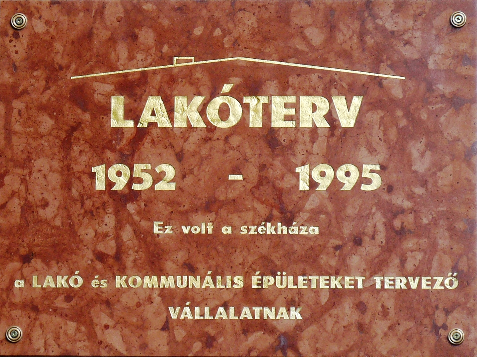 Commemorative plaque to LAKÓTERV, the old engineering department for housing and communal buildings affixed to the wall of the former headquarters. (Budapest, District VII, Madách Square Nr 4)